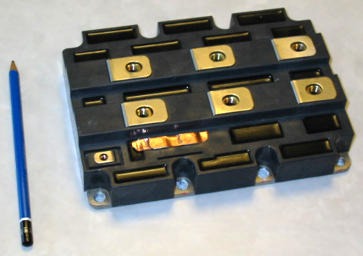 IGBT 3300V/1200A - Mitsubishi reference CM1200HC-66H